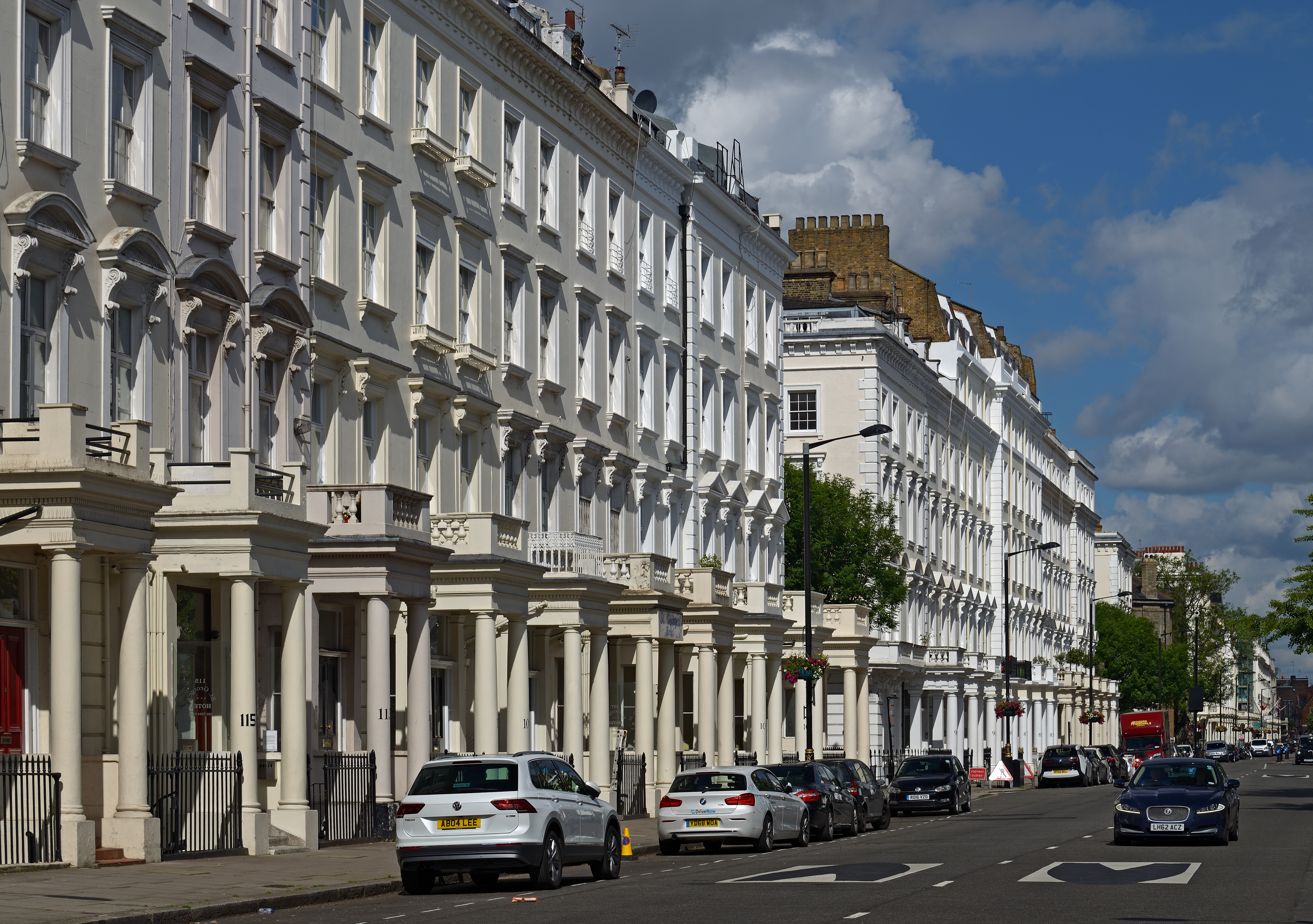 St George's Drive. London, UK